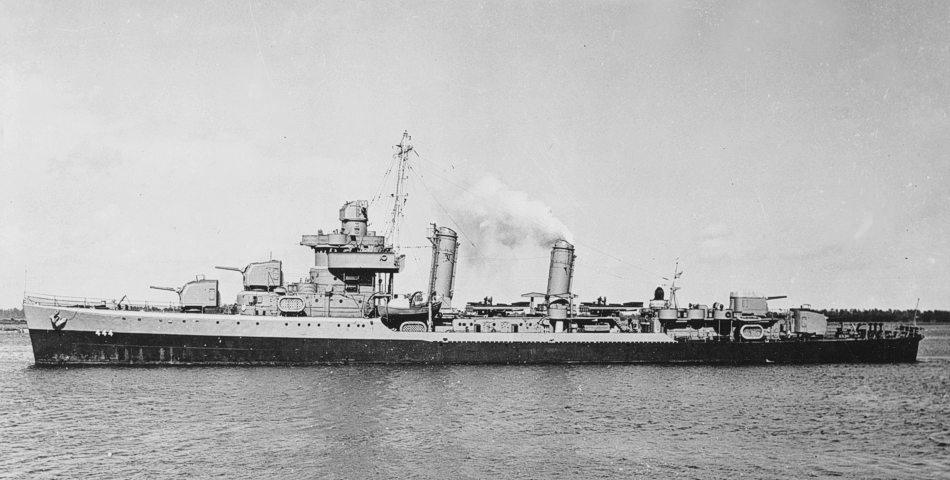 The U.S. Navy destroyer USS Ingraham (DD-444) underway circa in 1941-1942.